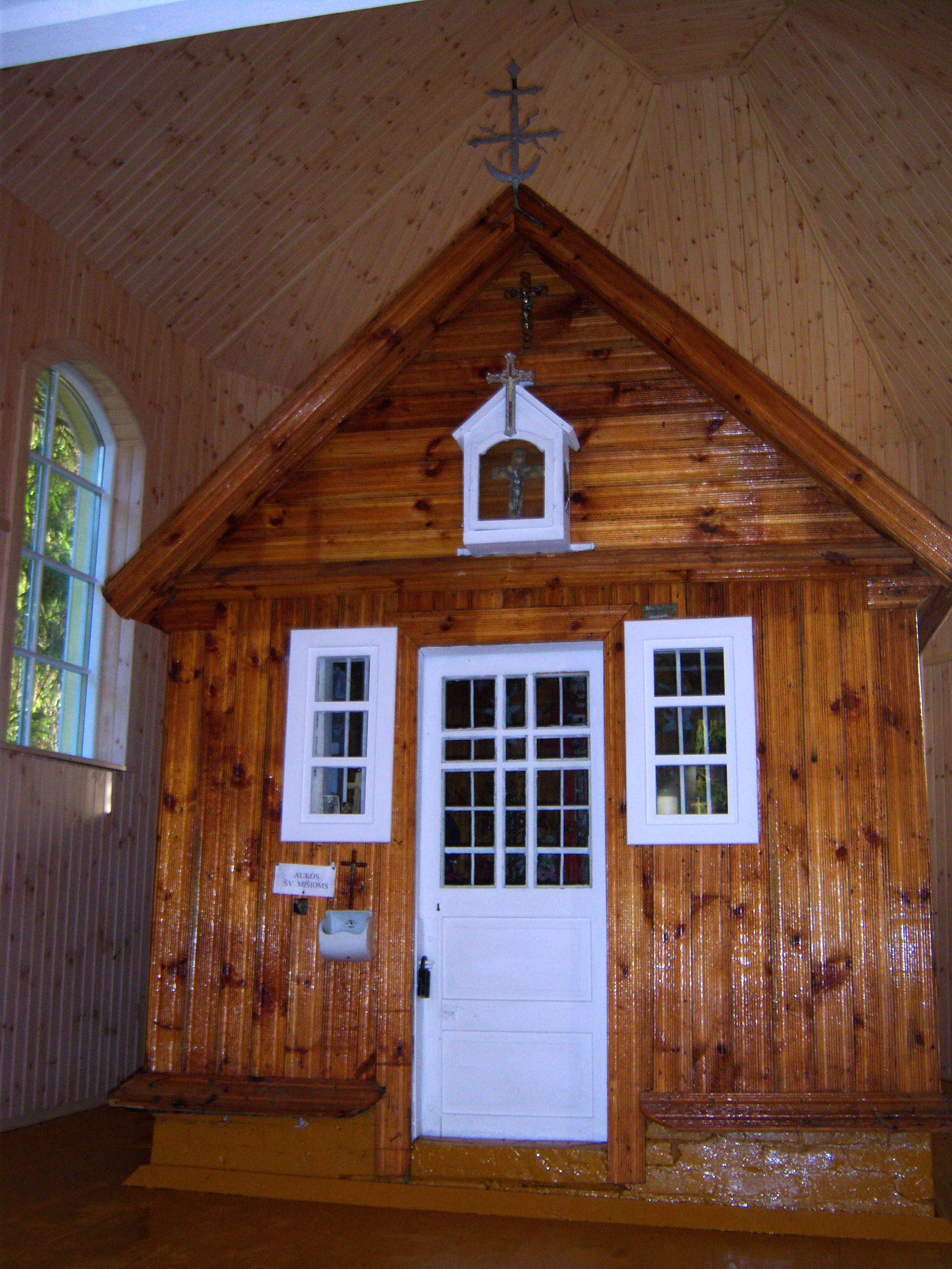 Drungeliškė (Gvaldai) Chapel, Šilalė District, Lithuania